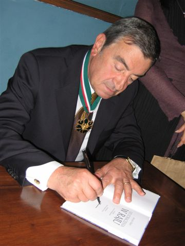 Arturo Mari (b. 1939), Italian photographer